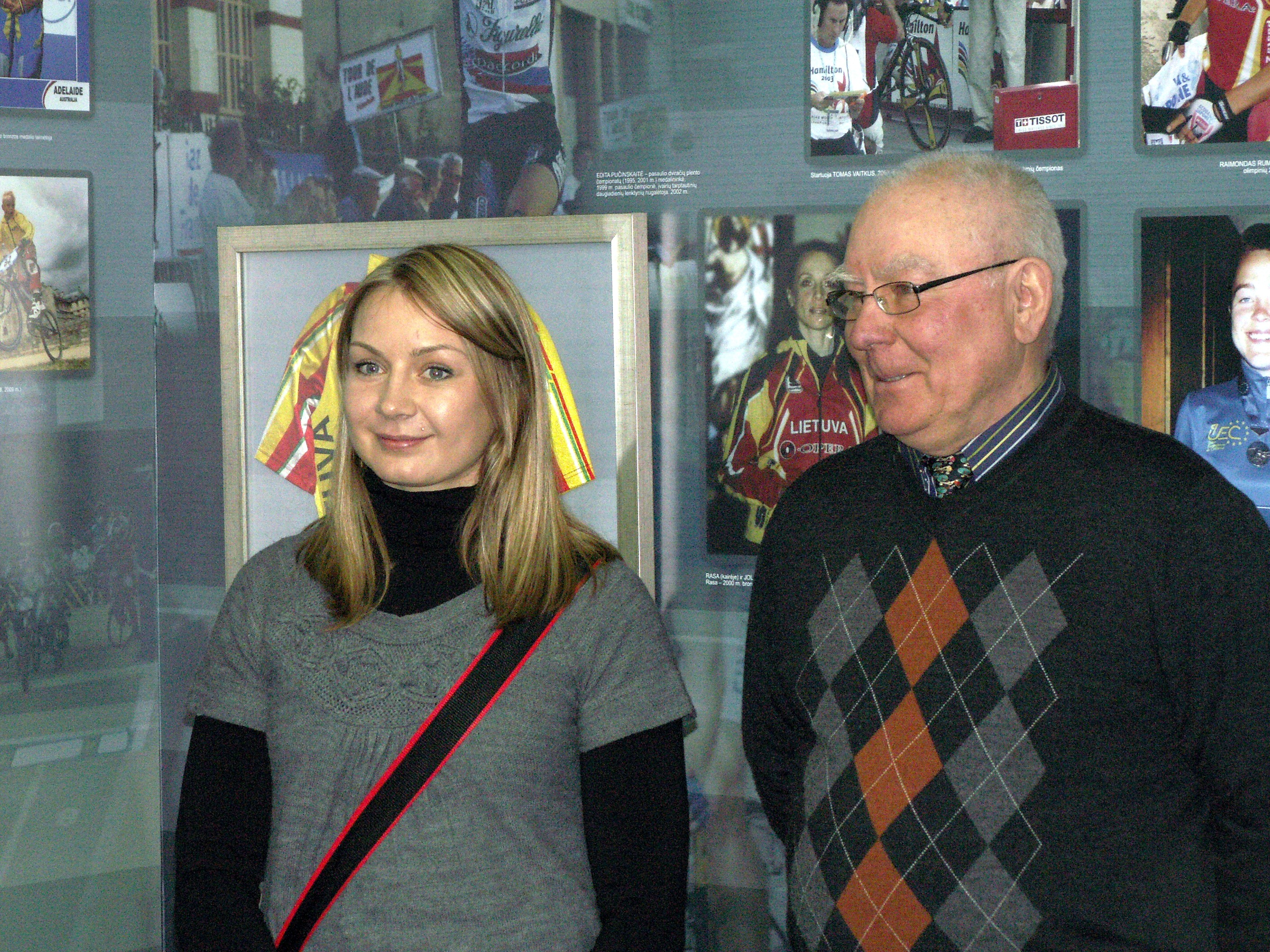 BMX cyclist Vilma Rimšaitė and Albertas Rimša, Lithuania